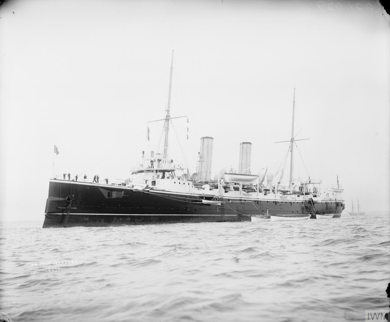 British cruiser HMS Bonaventure.